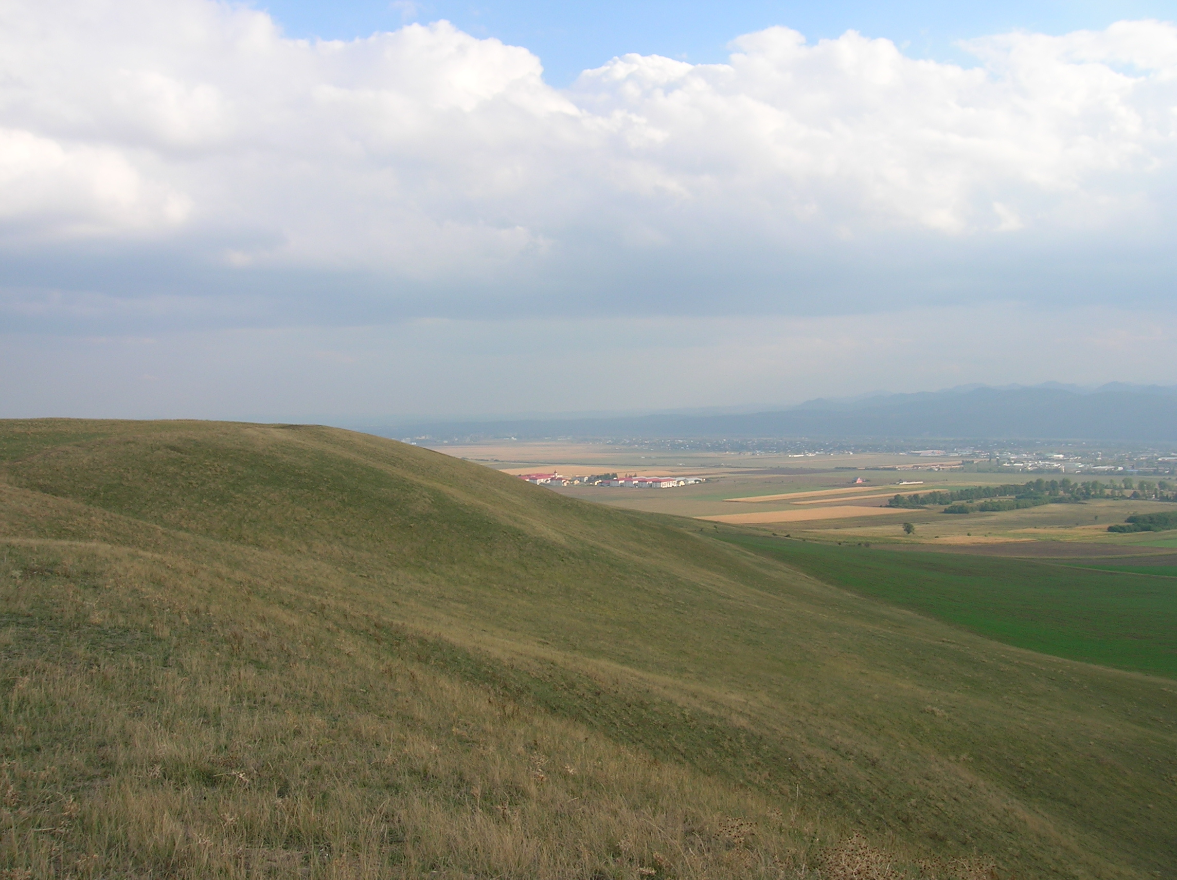 Dealul Vulpii-Boțoaia (Nature Reserve), Neamț county, Romania